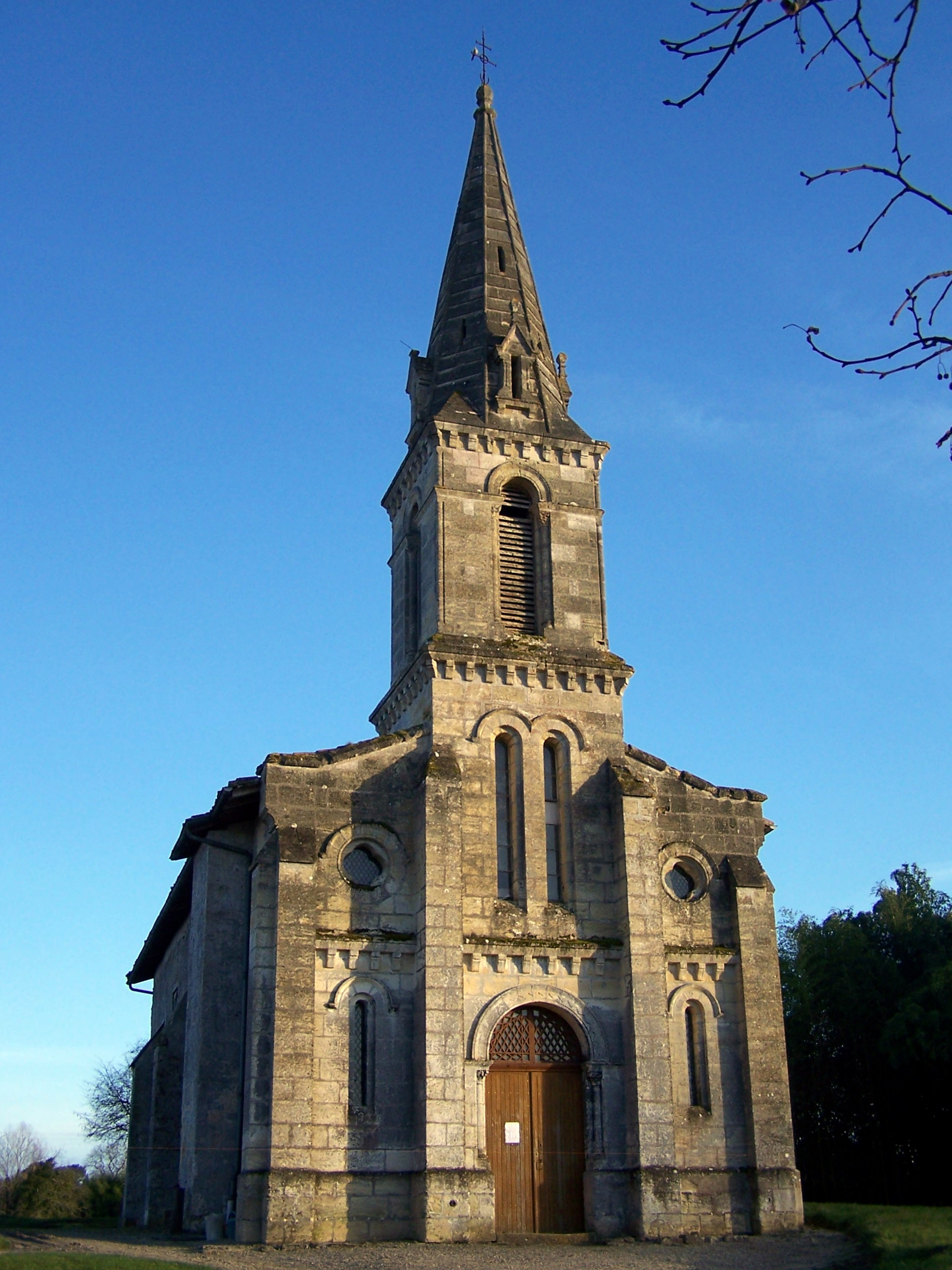 Church of Lignan-de-Bazas (Gironde, France)